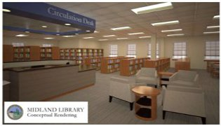 Cabarrus County Library - Midland NC Location - Conceptual Drawing of Interior